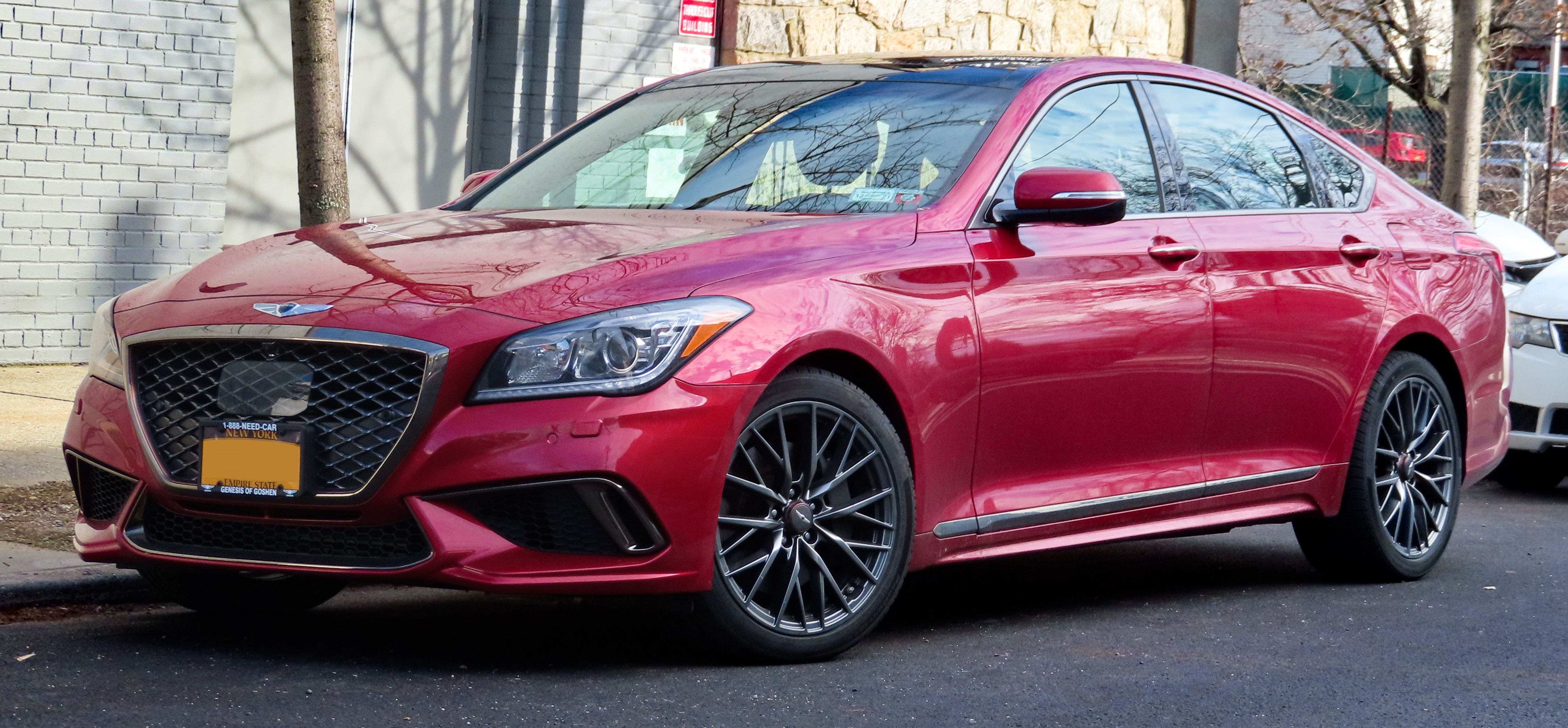 A 2019 Genesis G80 photographed in Flushing, Queens, New York, USA